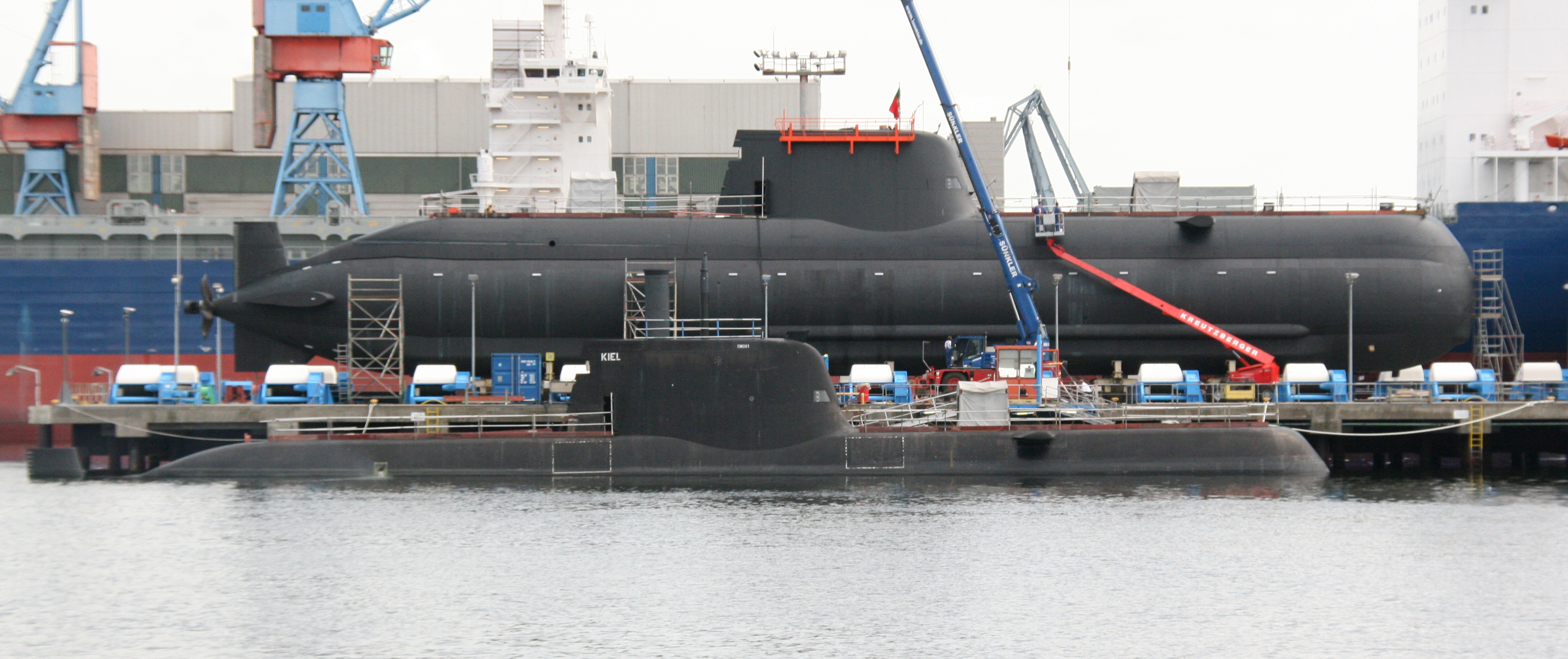 Portuguese submarine NRP Tridente (docked) and Greek submarine S-120 Papanikolis (in the water) at HDW, Kiel, Germany